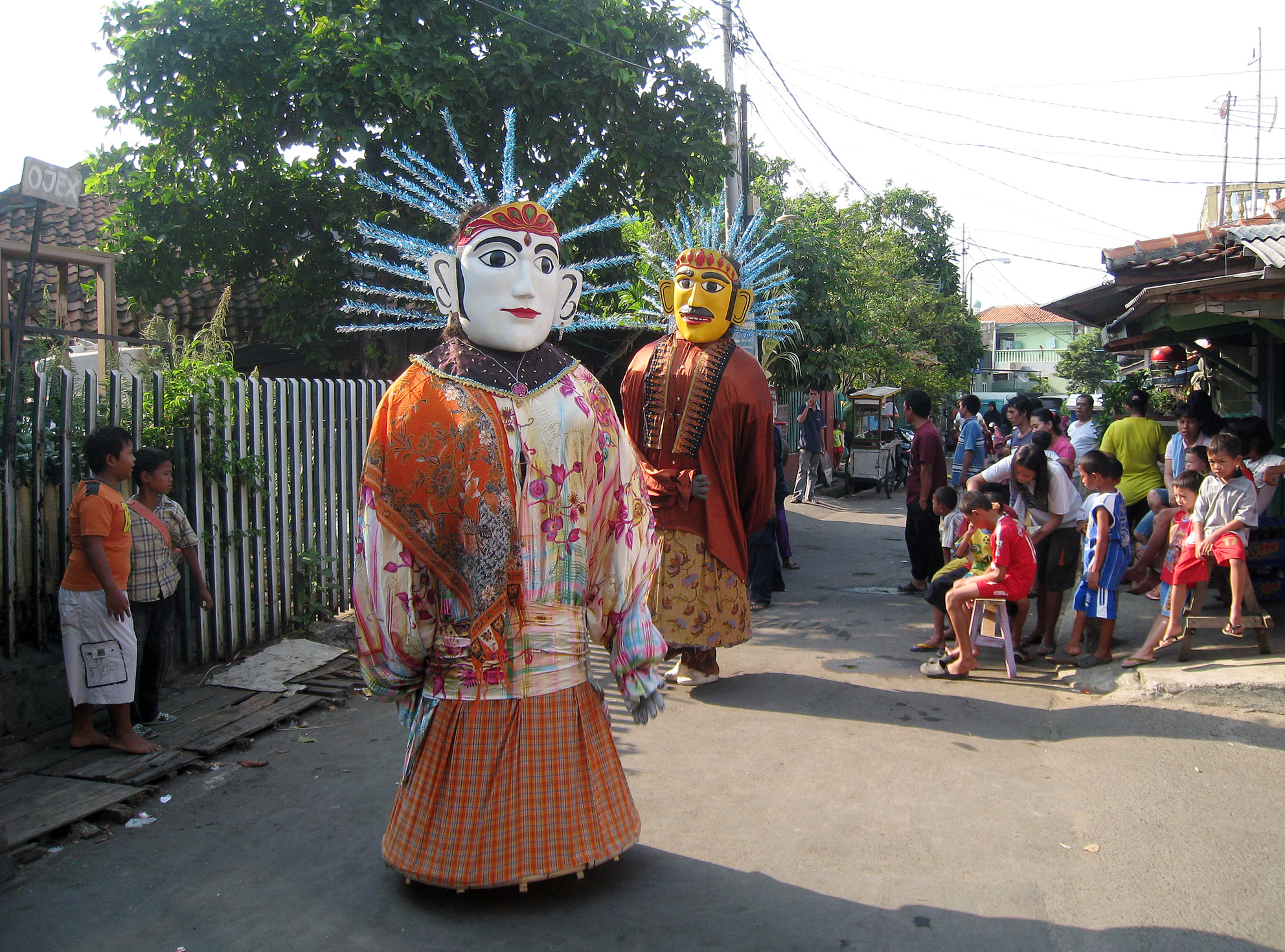 Ondel-ondel street performance at Jalan Cempaka Putih Tengah 22A, Central Jakarta, Indonesia. Ondel-ondel street performance usually travelling the streets of Jakarta kampungs (urban villages), and asking money contribution from audiences and passer by. The ondel-ondel is a large bamboo-wooden puppet-mask of Betawi couple; male and female ondel-ondel dancing accompanied with Gambang Kromong, Betawi traditional music consist of drums, gongs, and rebab (lute). The song plays here is traditional Betawi song "Sirih Kuning".